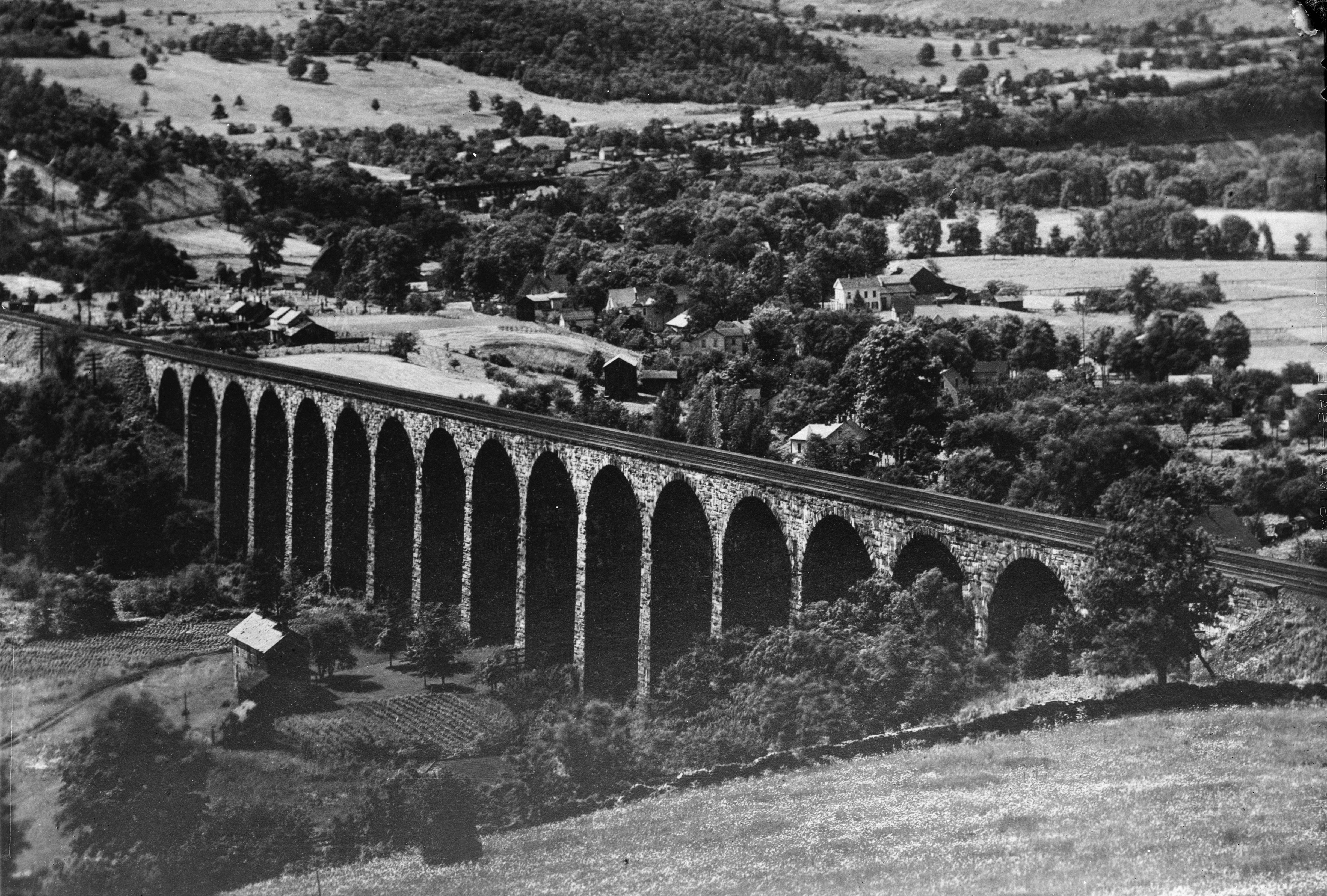 The Starrucca Viaduct near Lanesboro, Pennsylvania, as seen in a photo from 1920.